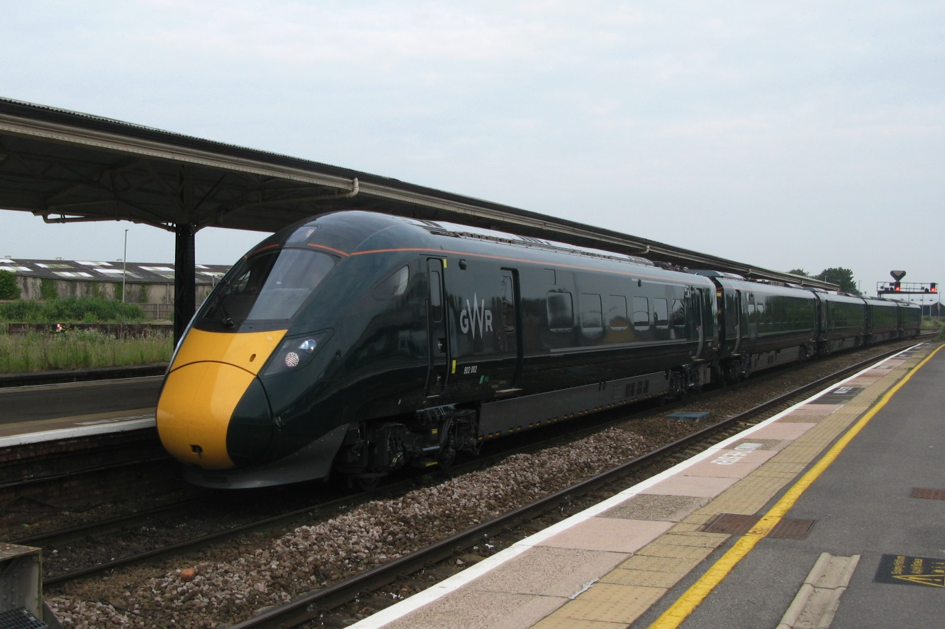 A month before starting passenger service, Great Western Railway 'InterCity Electric Train' 802002 arrives at Taunton with an early morning crew training run from Plymouth.